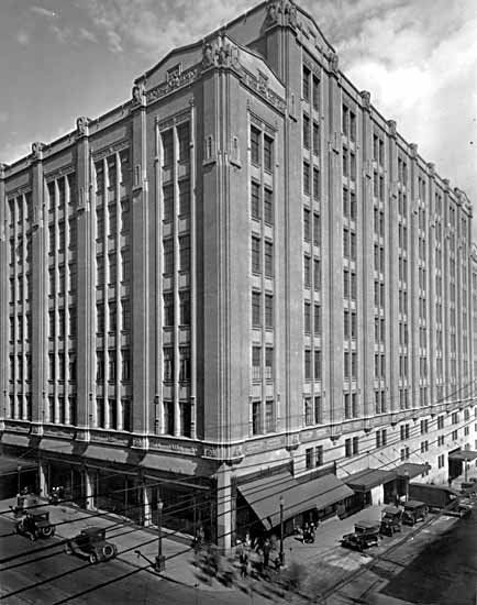 D. Spencer's Department Store at Hastings and Richards in Vancouver, British Columbia, Canada